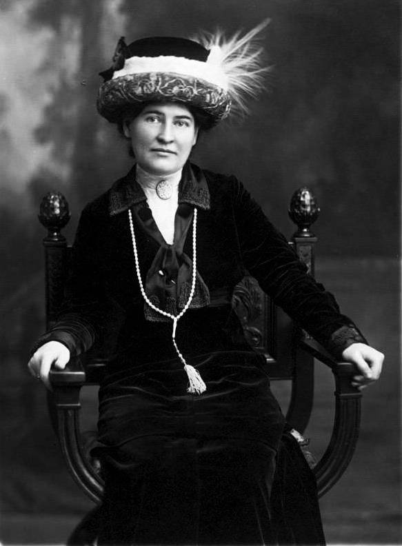 Willa Cather ca. 1912 wearing necklace from Sarah Orne Jewett